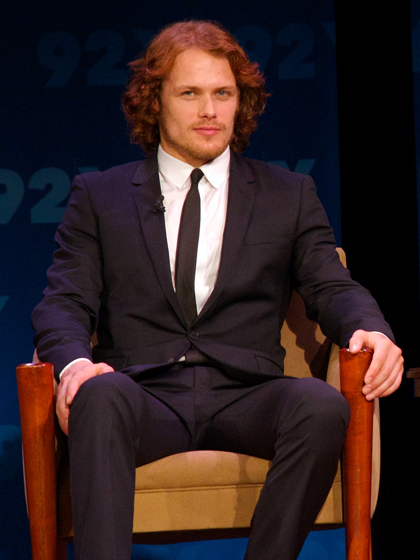 Actor Sam Heughan at 92nd Street Y for the New York premiere of the first season of the TV series Outlander. The season is based on Diana Gabaldon's novel of the same title and shows Heughan starring.